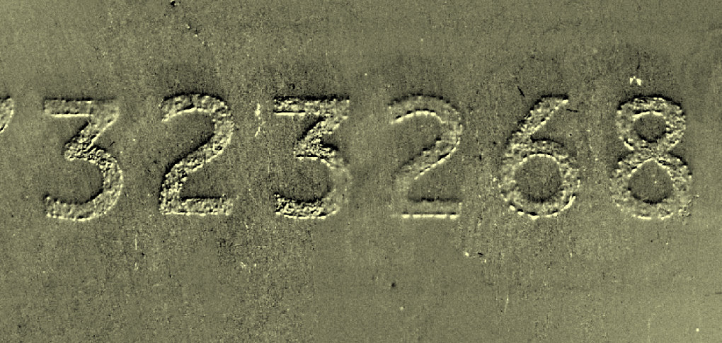 Visualization of magnetic security label on a Euro-banknote by using CMOS-MagView.